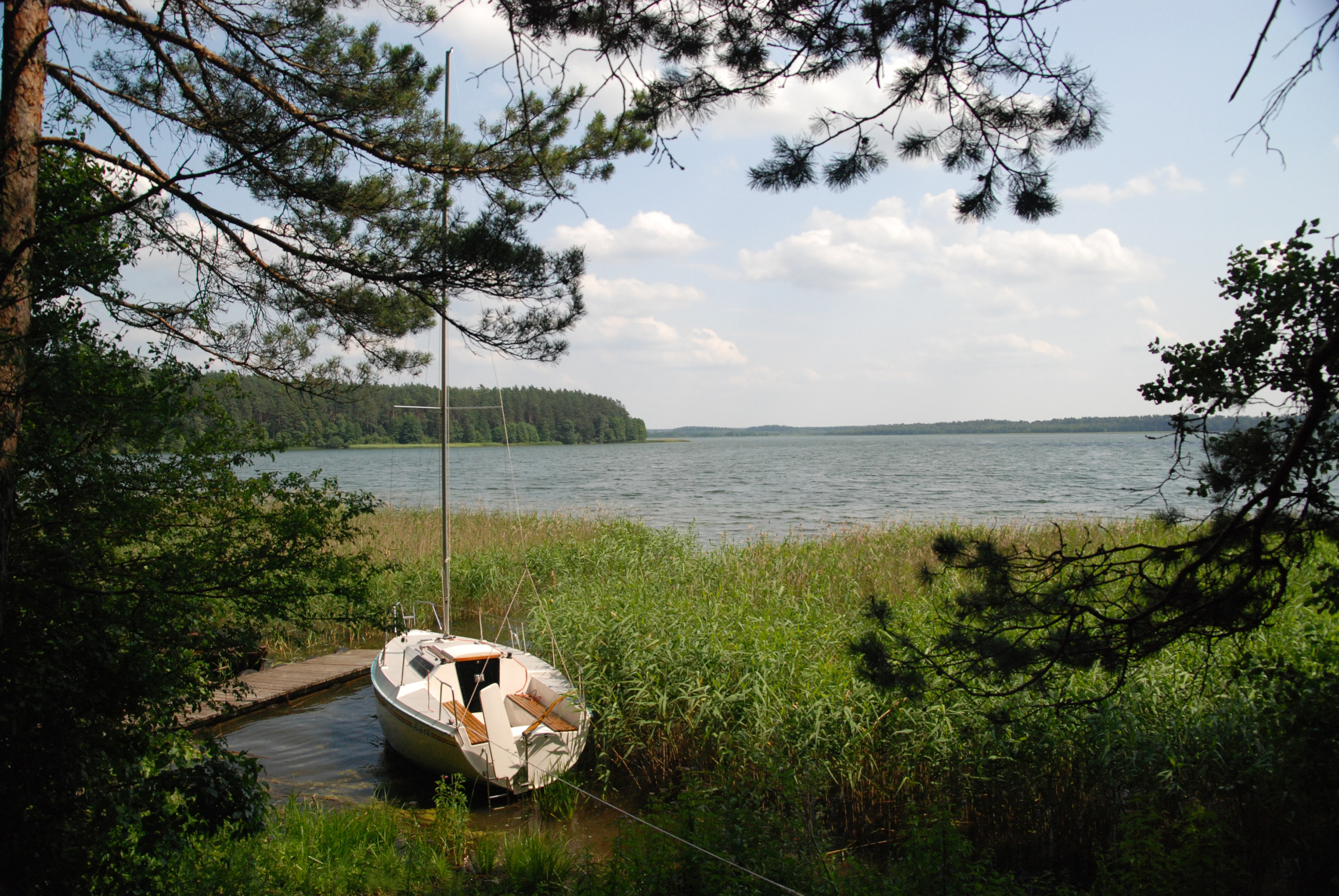 This photo from Podlaskie Voievodeship was taken during Polish Wikiexpedition 2009 set up by Wikimedia Polska Association. The making of this document was supported by Wikimedia Polska. Jezioro Wigry